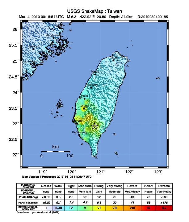 Shake map of the magnitude 6.4 earthquake of Taiwan on March 4, 2010. Epicenter marked at star. Sixth version of the map, realized by USGS on 3 MArch 2010 at 06:10:30 MST.